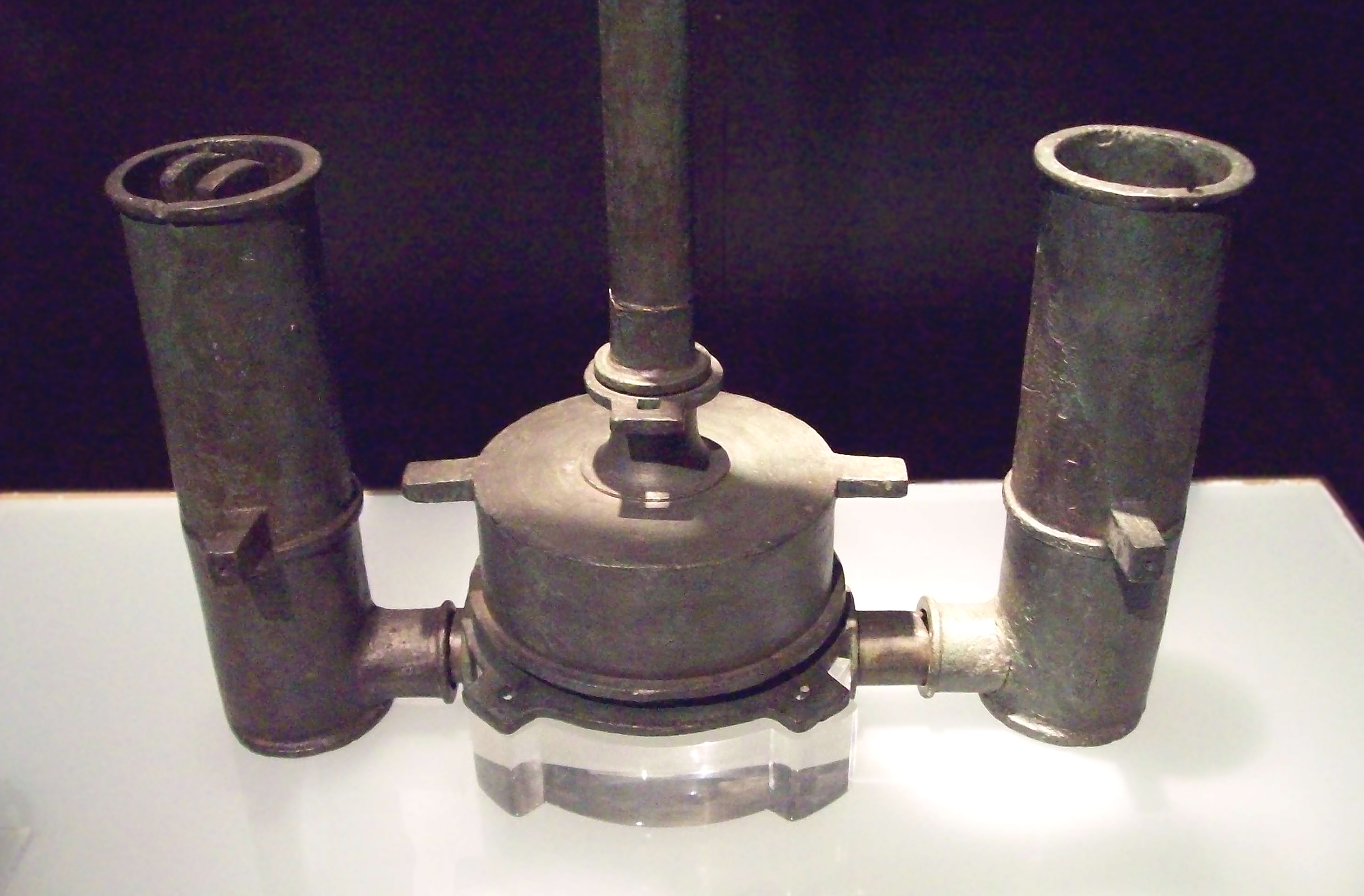 Detail of an Ancient Roman hydraulic pump.